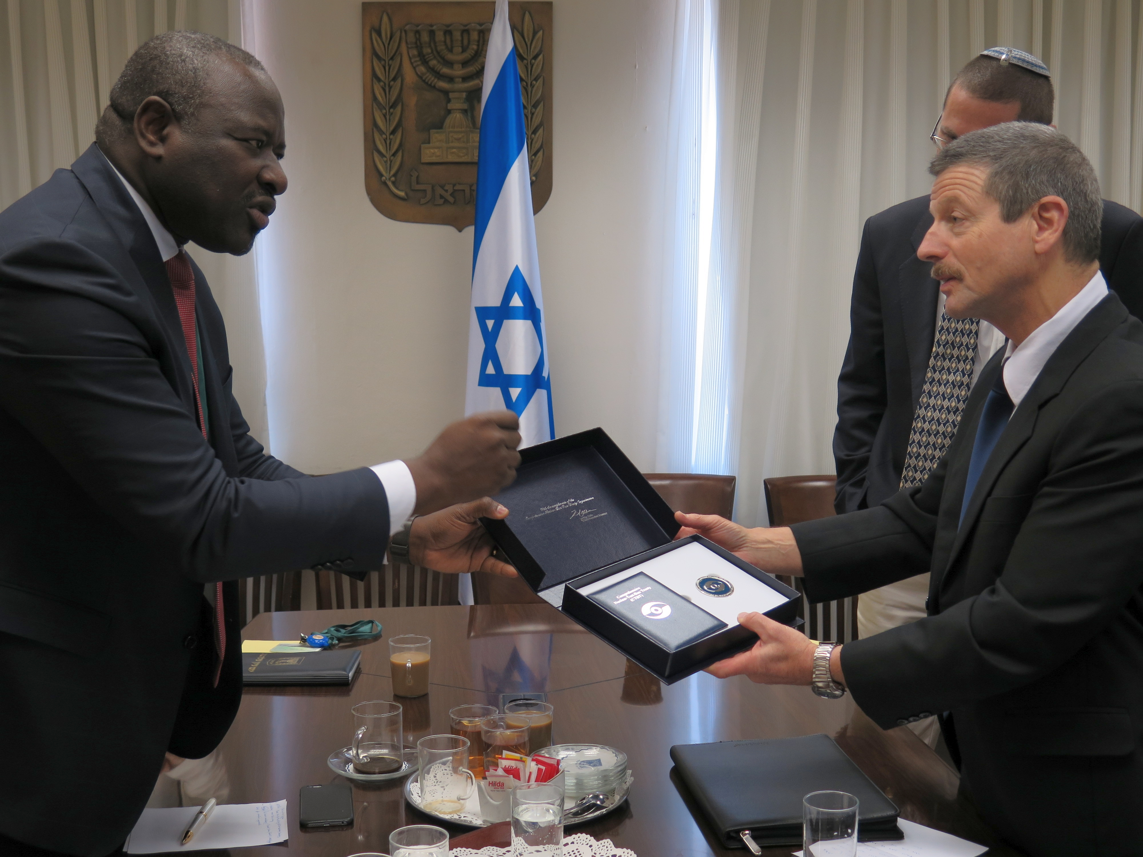 CTBTO Executive Secretary Lassina Zerbo meets with Ze’ev Snir Director General, Israel Atomic Energy Commission, on 20 June 2016 in Jerusalem, Israel. See here for details on the visit: bit.ly/28KuSzb